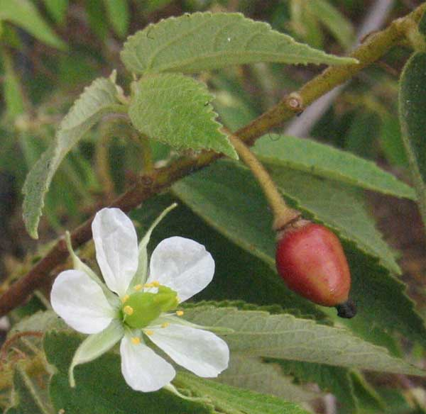 Flowers, fruit and leaves of Muntingia calabura